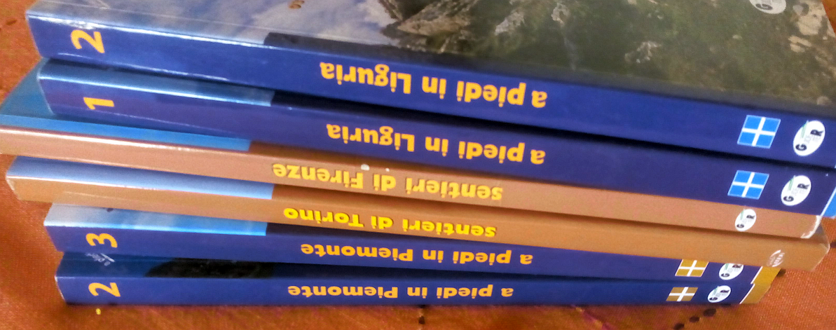 Some books of Iter Edizioni